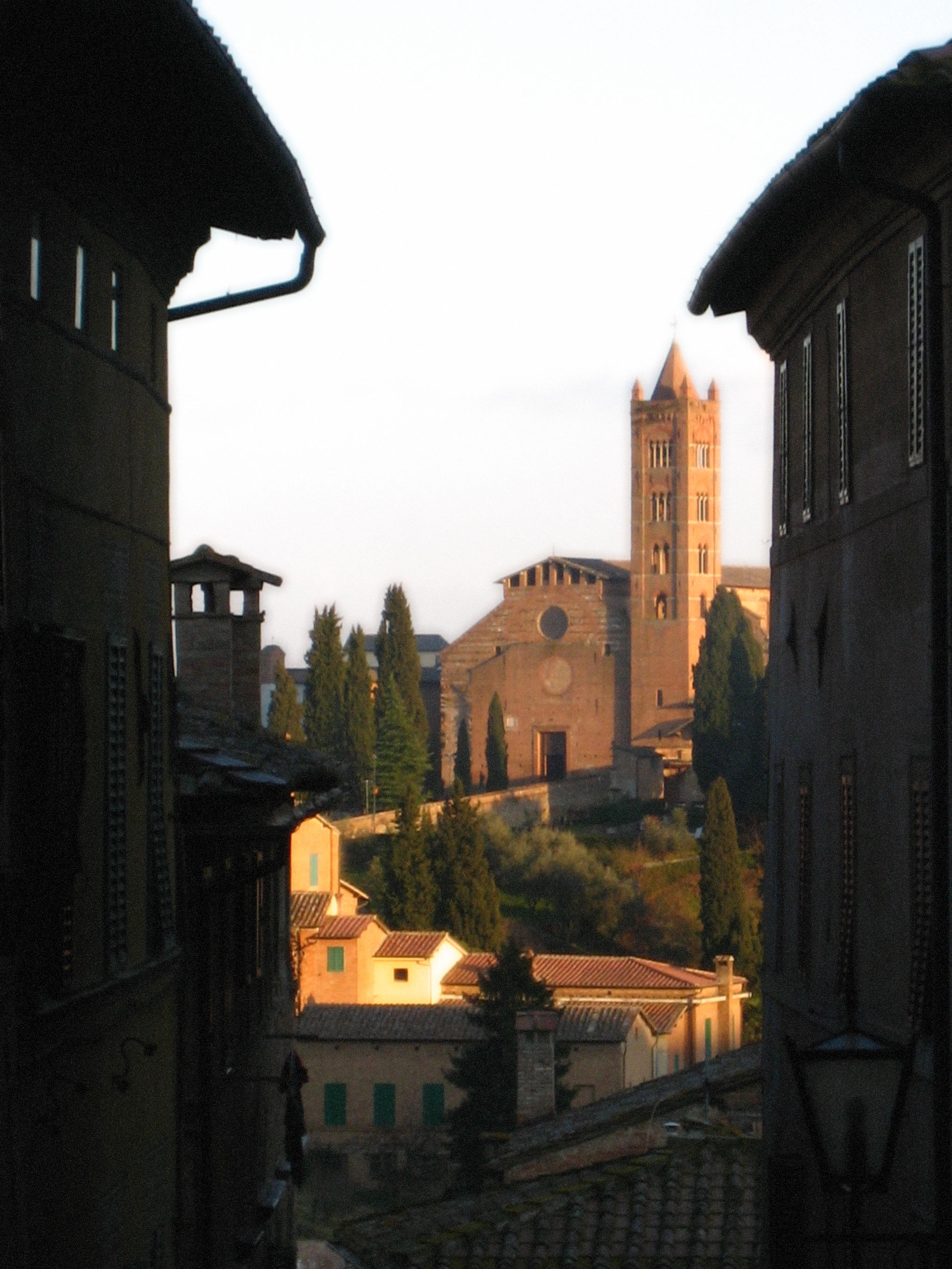 Church_in_Siena, Basilica di San Clemente in Santa Maria dei Servi From en.wiki [1] Pd by the author 18:18, 3 October 2006 . . Karmarooster